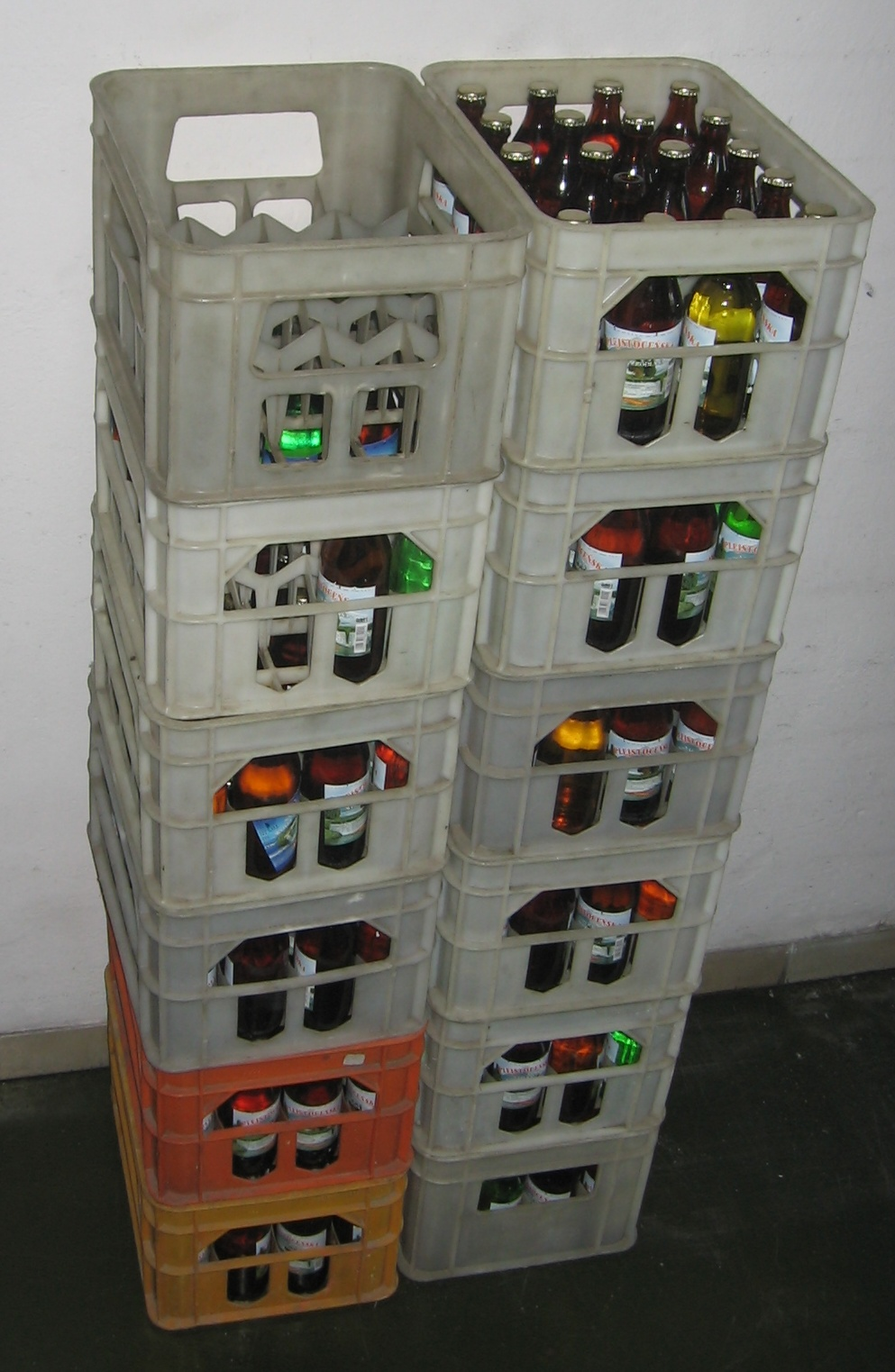 mineral water in glass bottles, in plastic containers